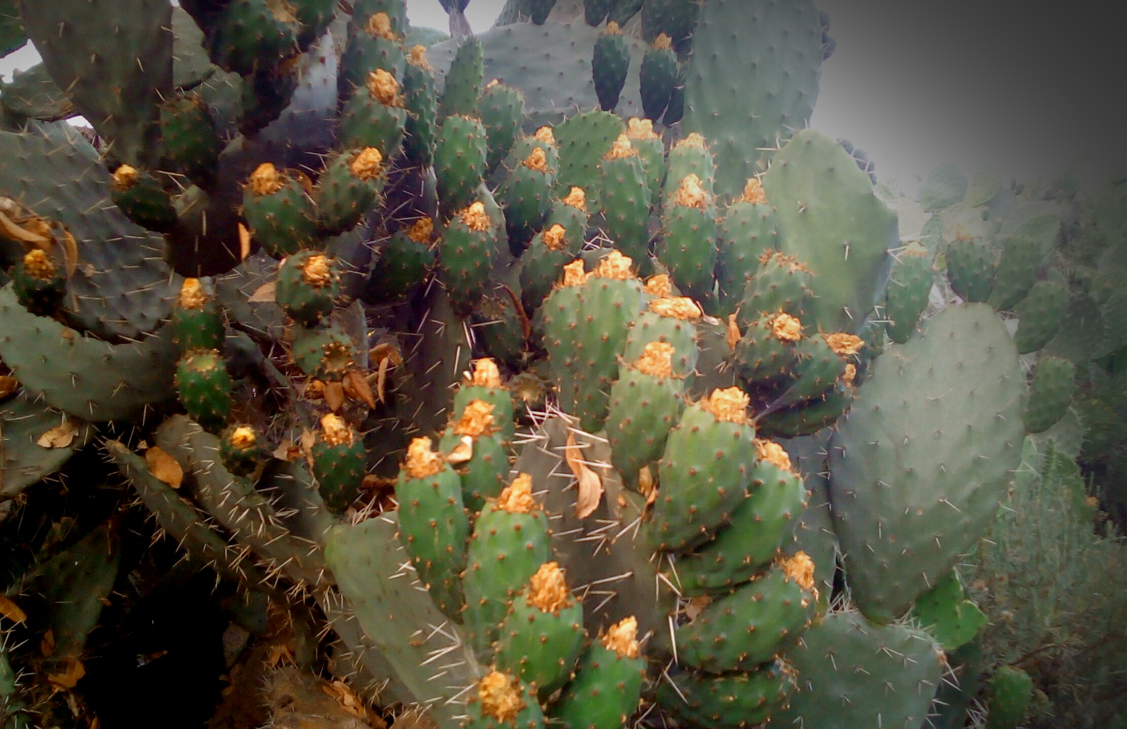 Picture shows the nature in Imezdaten mezdatta Village